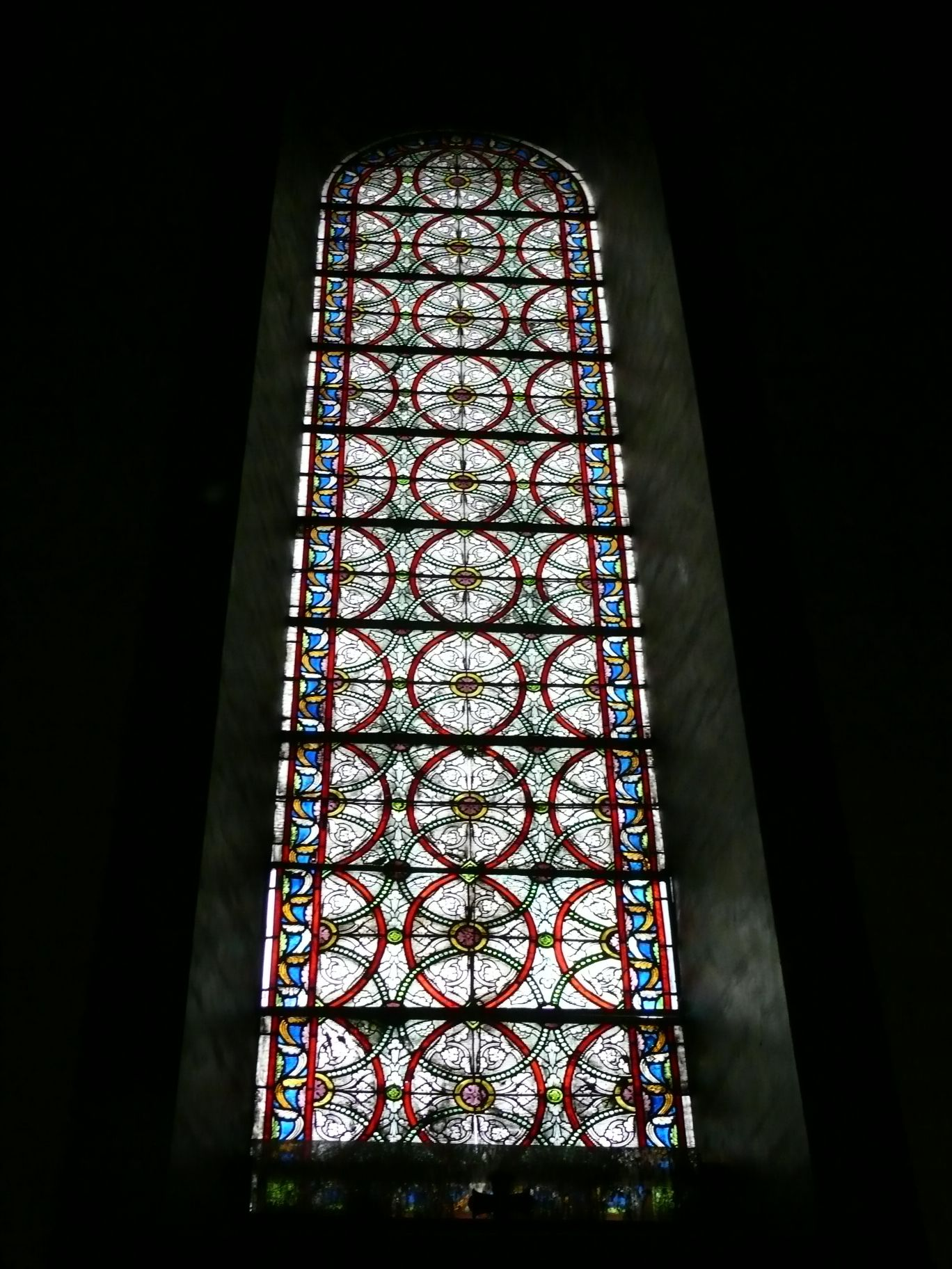 Inside Saint Joseph's church in Beijing (China).